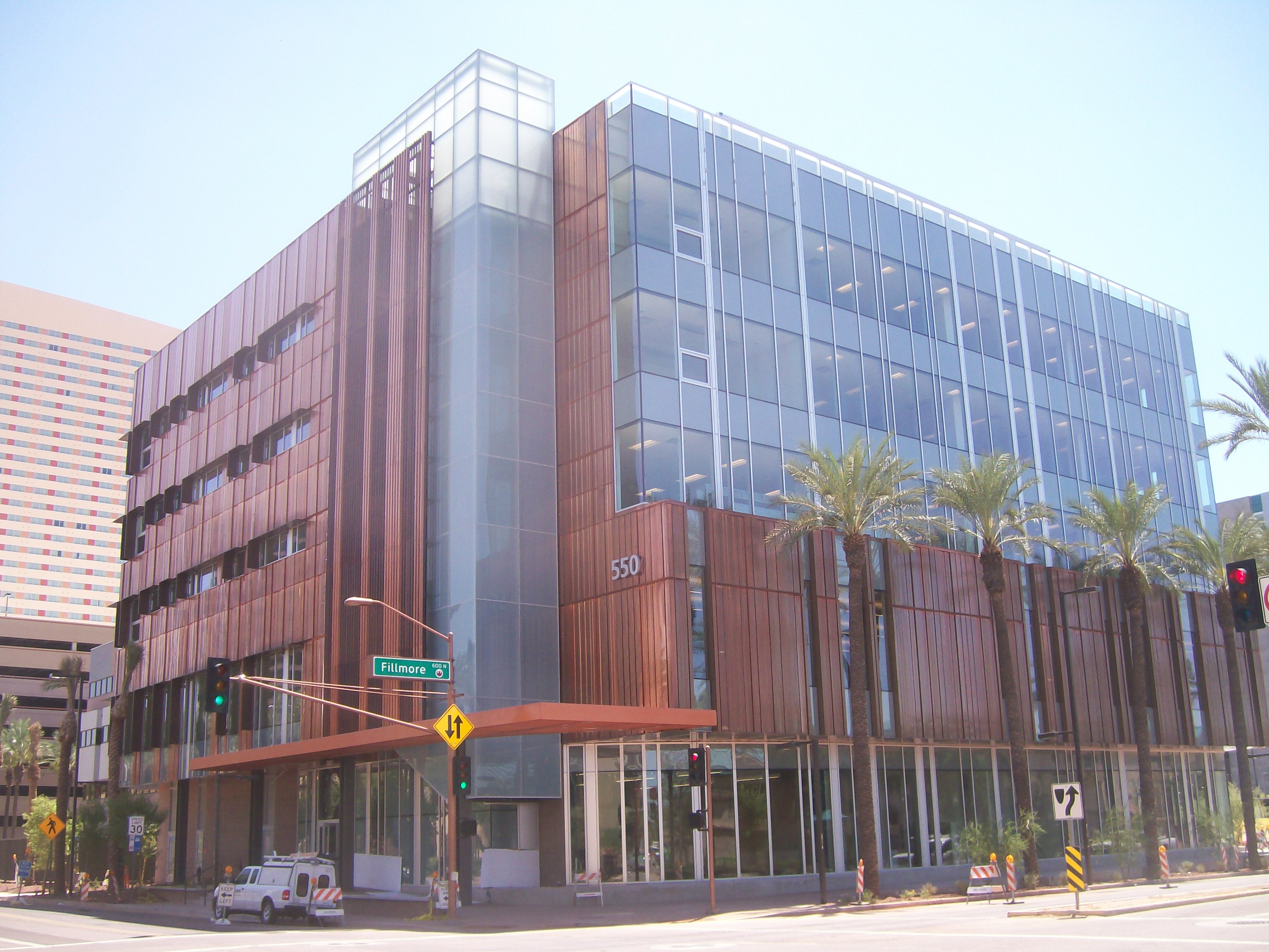 Photo of the College of Nursing & Health Innovation building. Part of the ASU Downtown Phoenix Campus in Phoenix, Arizona